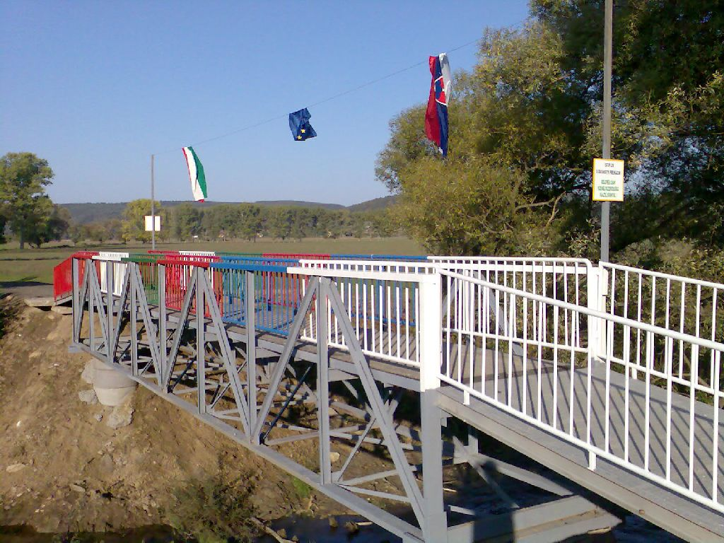 foot bridge between Bussa (Bušince) and Nógrádszakáll